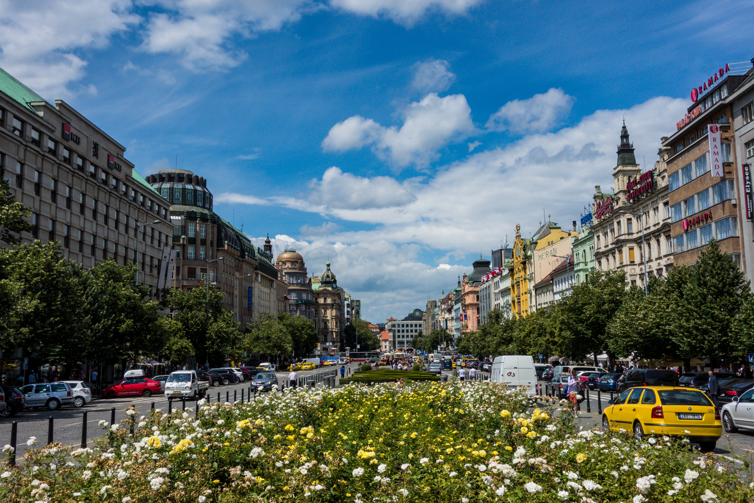 Czech Republic - Prague